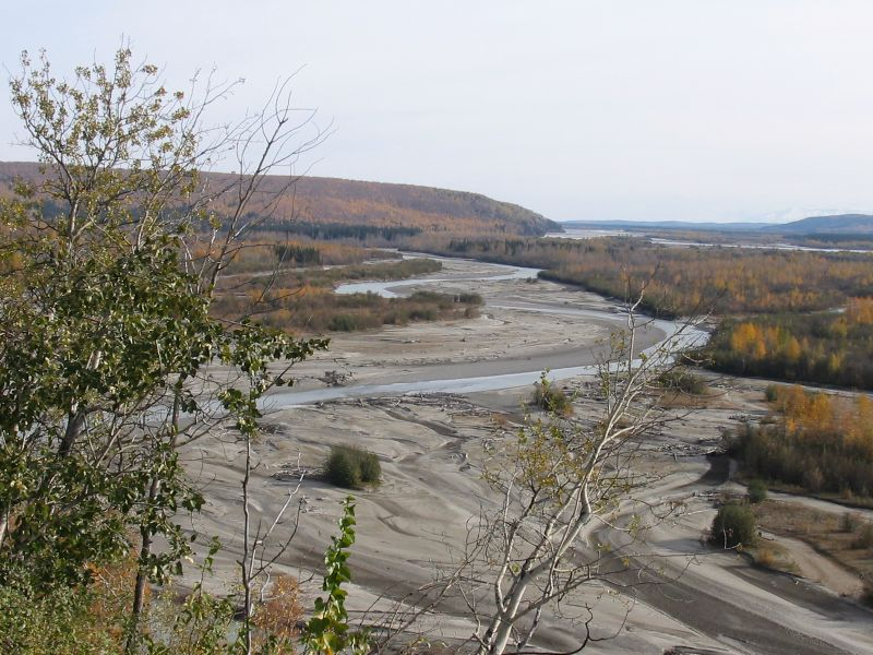 Eastern view of the Tanana River.